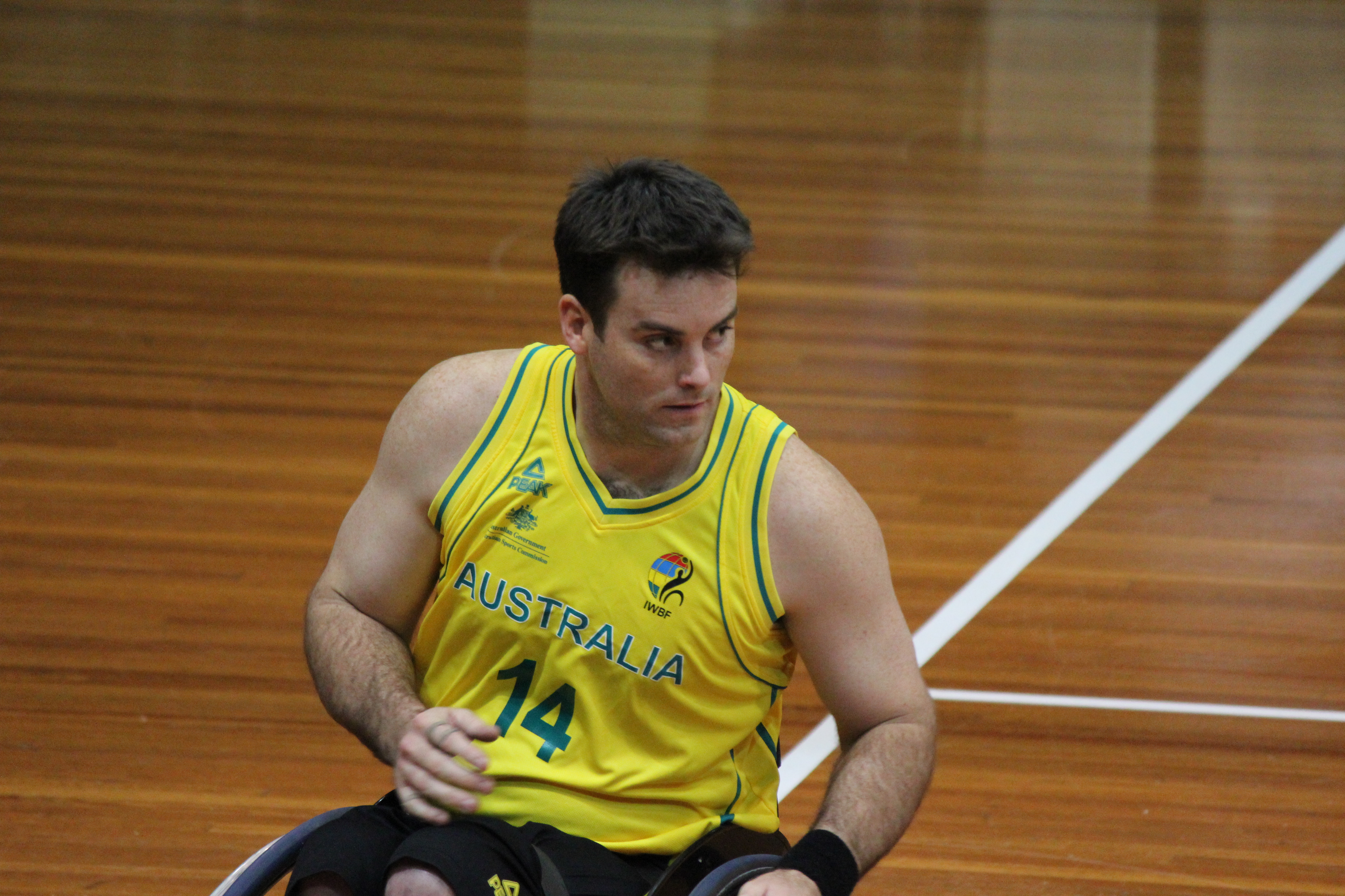 Nick Taylor (basketball)